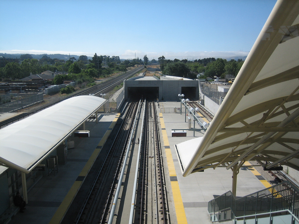 Millbrae station, looking northwest. Caltrain tracks to San Francisco are on the left, BART tracks to San Francisco International Airport (SFO) are leading into the tunnel on the right.